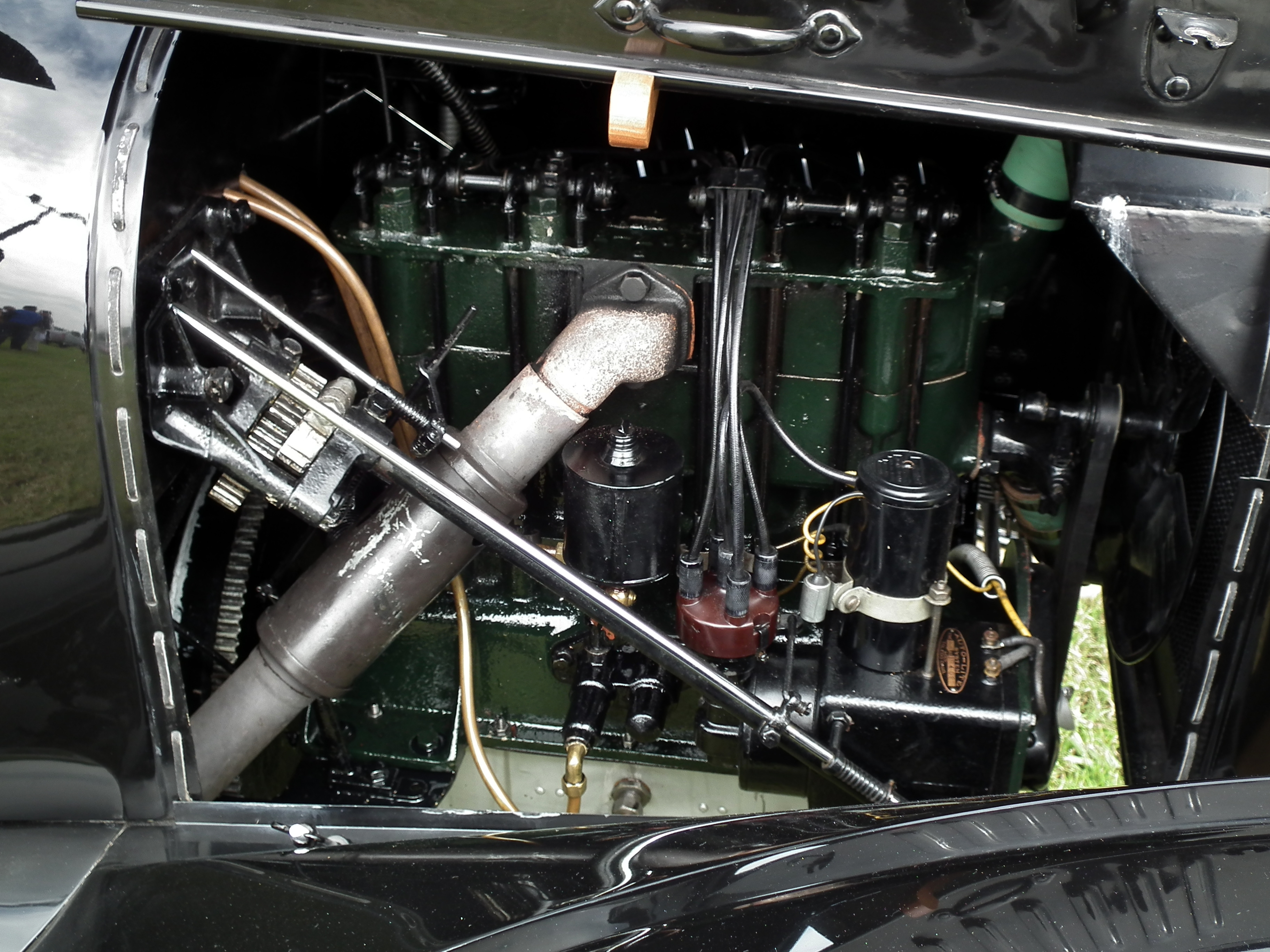 1916 Chevrolet Model 490 runabout engine. Taken at the General Motors Display Day, held in the grounds of Penrith Panthers Club, Penrith NSW.